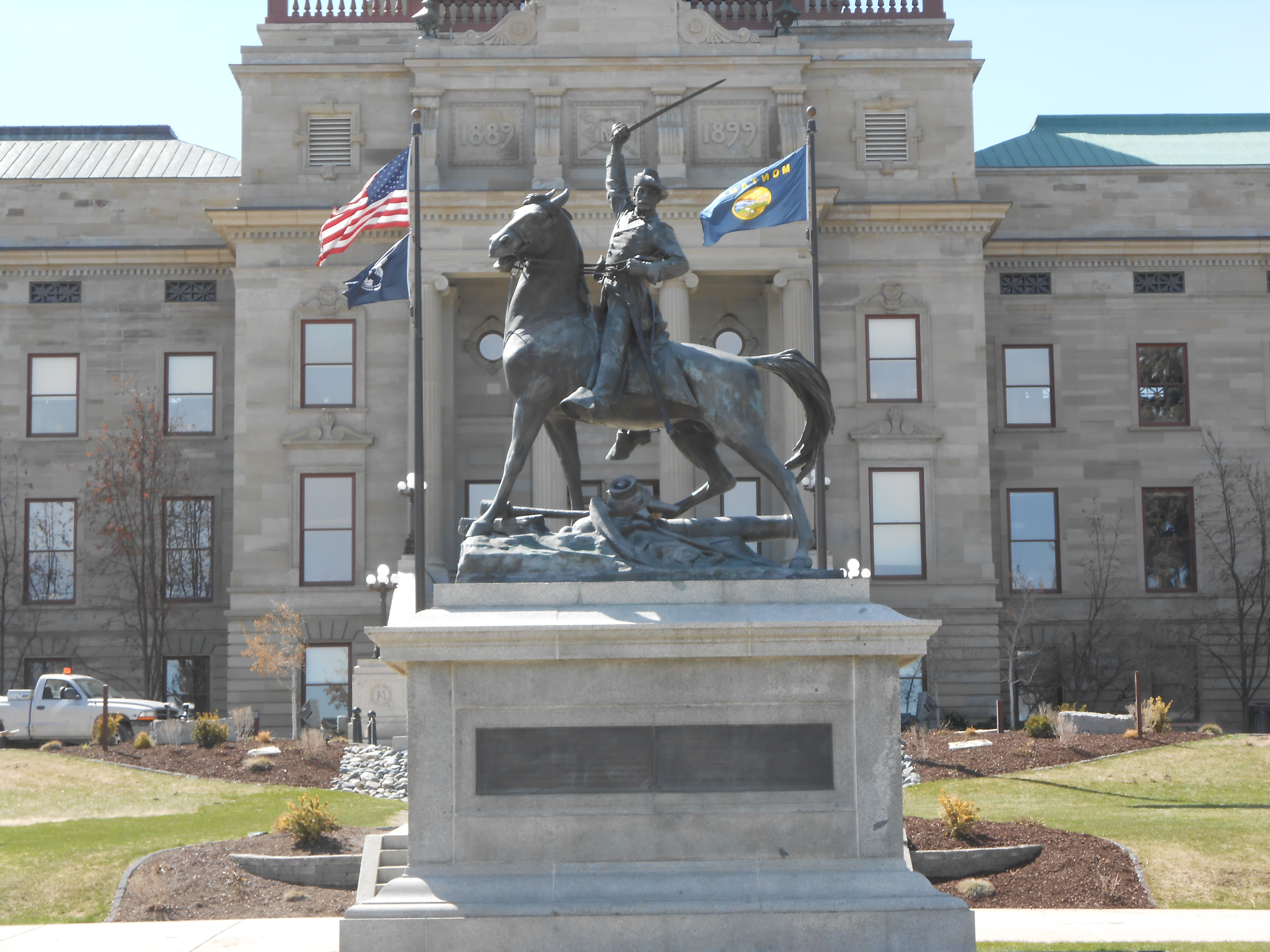 Thomas Francis Meagher statue, State Capitol, Helena Montana, 2013